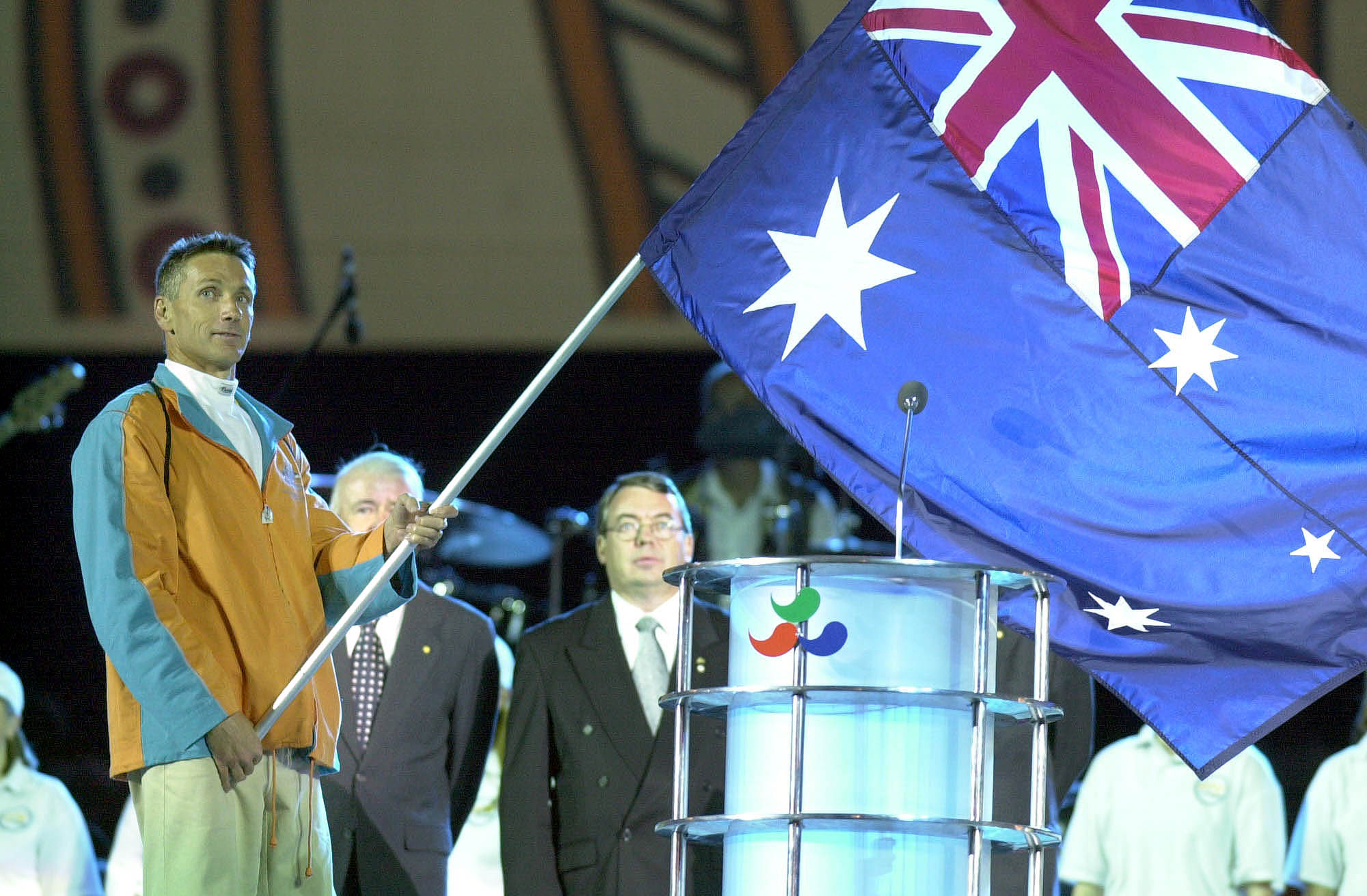 Australian swimmer Brendan Burkett with the Australian flag at the Sydney Paralympic Games Opening Ceremony, near the lectern where speeches are made